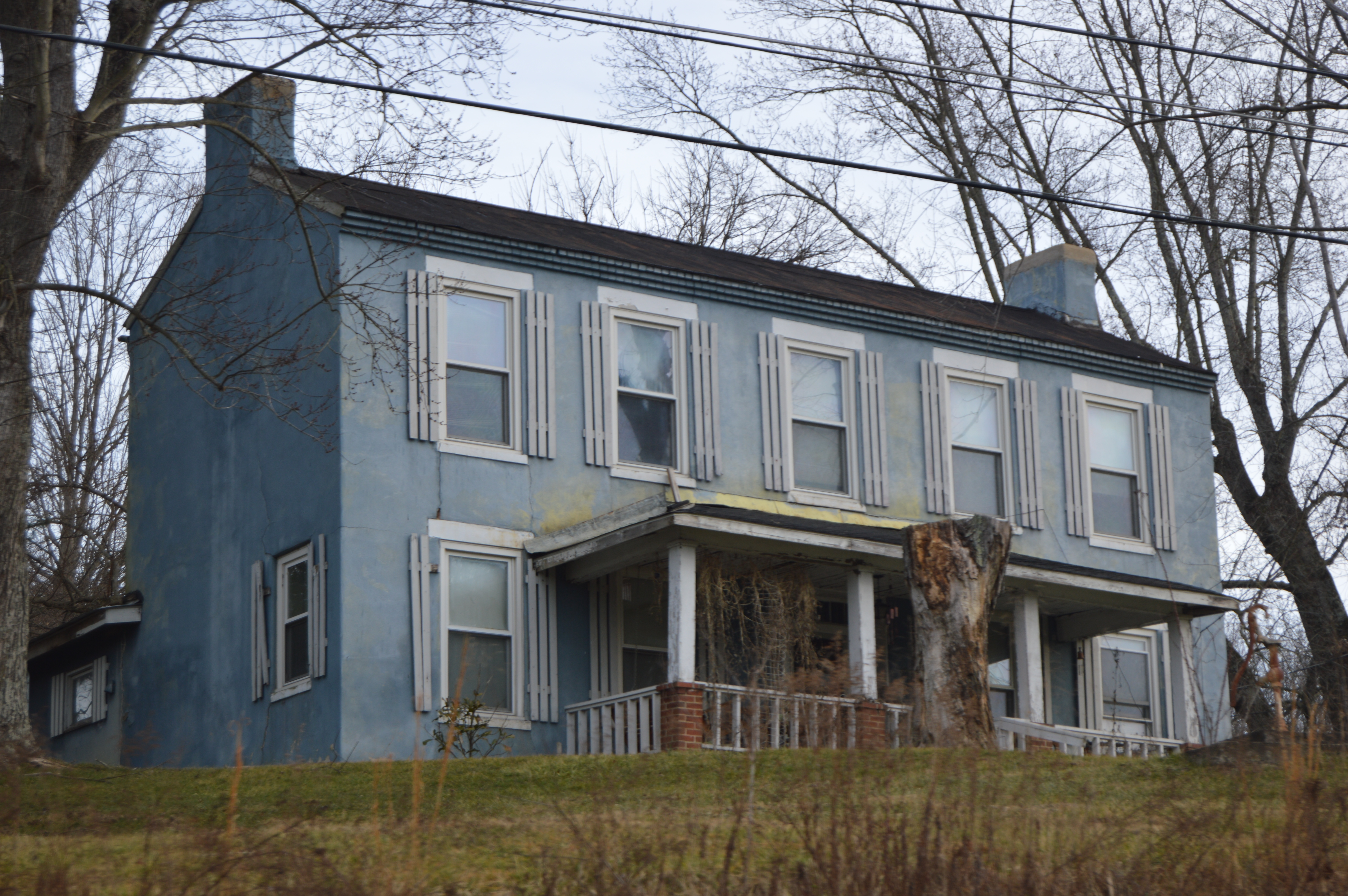 A brick I-house on the northern side of U.S. Route 50 just west of State Route 677 in Elk Township, Vinton County, Ohio, United States.